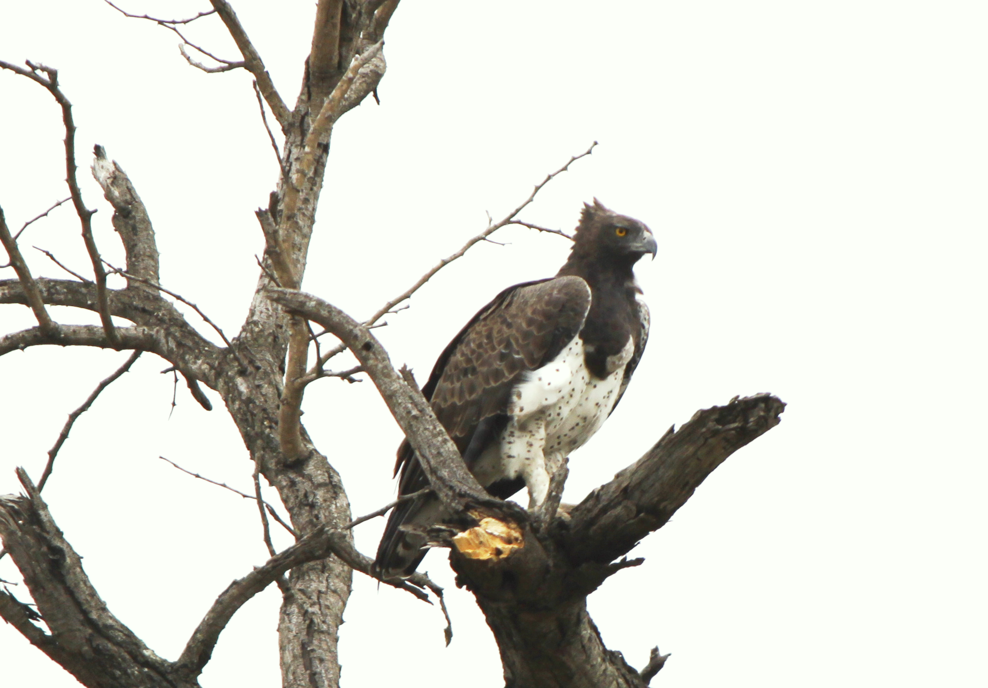 Martial eagle (Polemaetus bellicosus) in Kruger National Park, November 2013